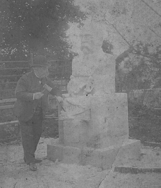 Fernando Heydrich, founder of the Acueduct of Matanzas, making a sculpture at his house in Matanzas